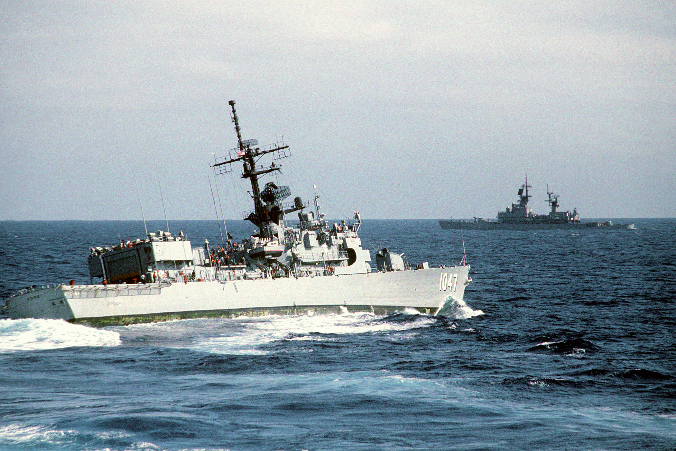 A starboard quarter view of the U.S. Navy frigate USS Voge (FF-1047) conducting a high speed evasive maneuver while operating with the aircraft carrier USS John F. Kennedy (CV-67) battle group in the Mediterranean Sea on 1 September 1988. The guided missile cruiser USS Biddle (CG-34) is visible in the background.